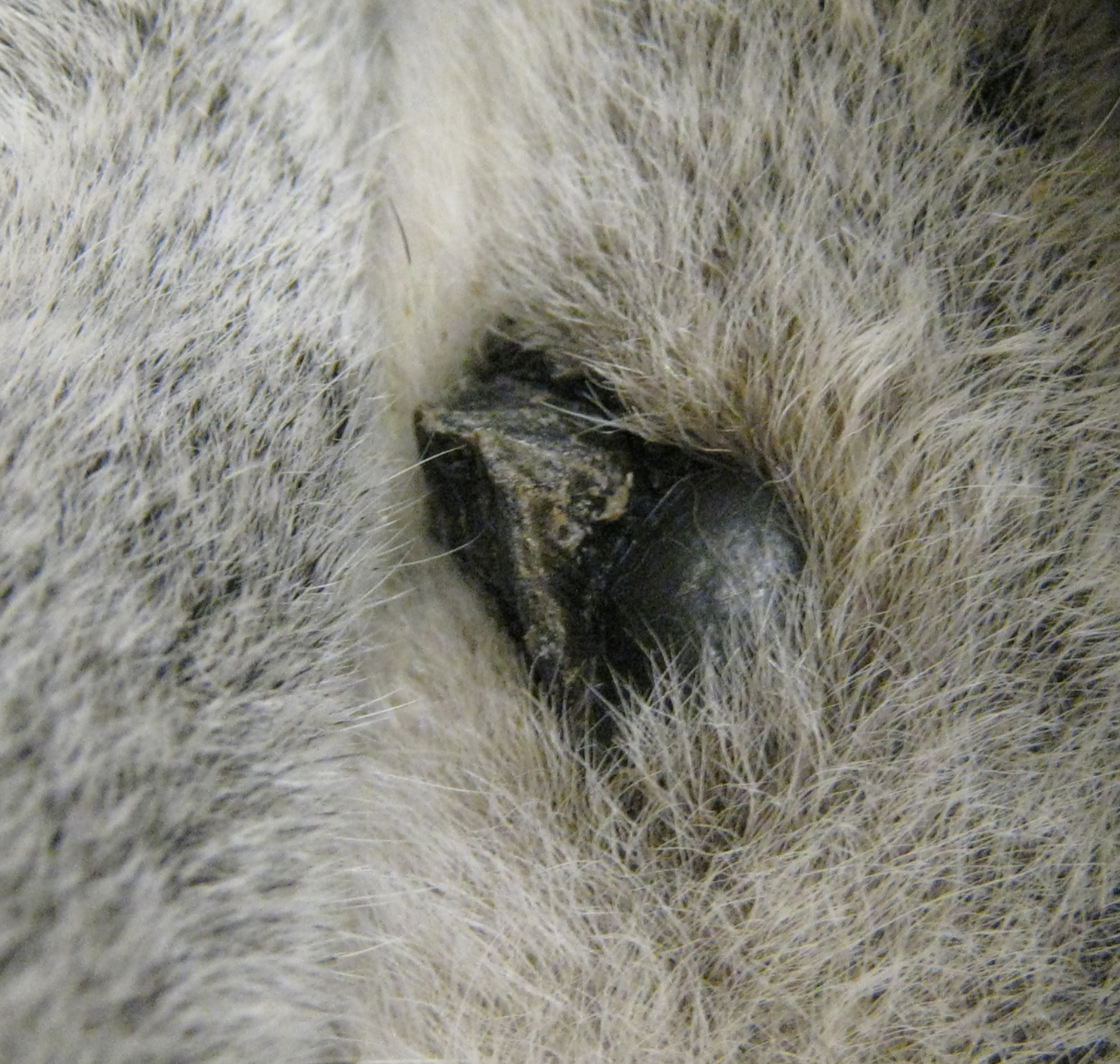 Wrist spur and antebrachial gland on the forearm of a male Lemur catta; taken during a routine physical examination